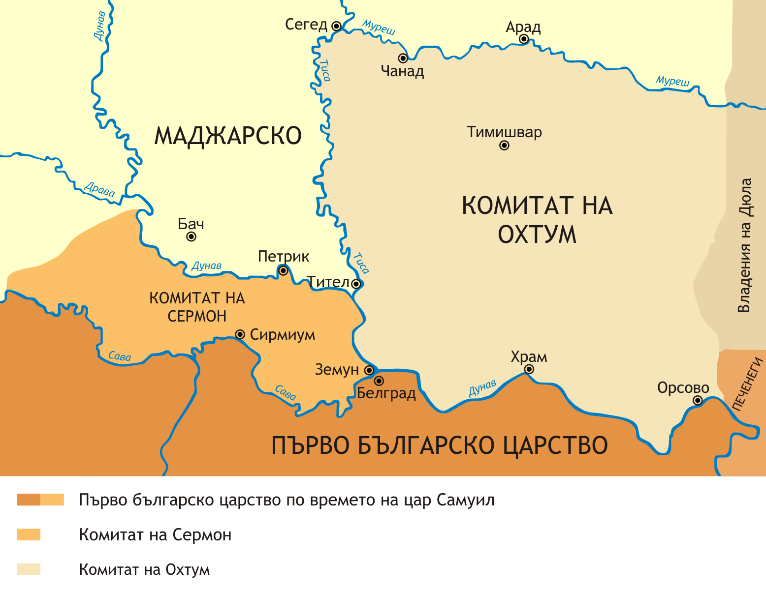 Realms of Ahtum and Sermon in the 11th century